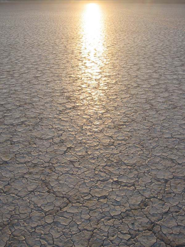 Setting sun reflecting off of the playa of the Alvord Desert